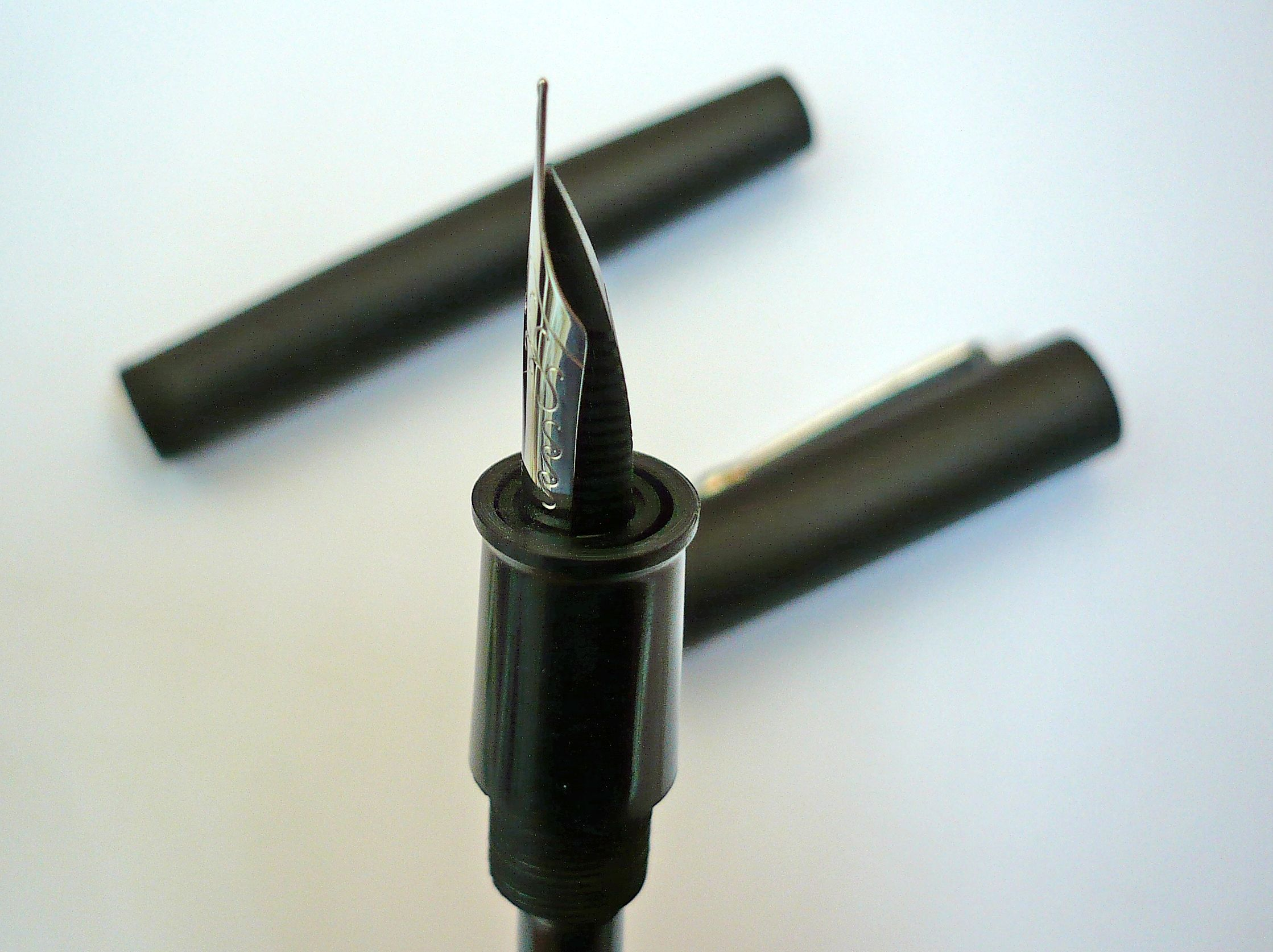 ASA Maya fountain pen fitted with a German made JoWo nib unit